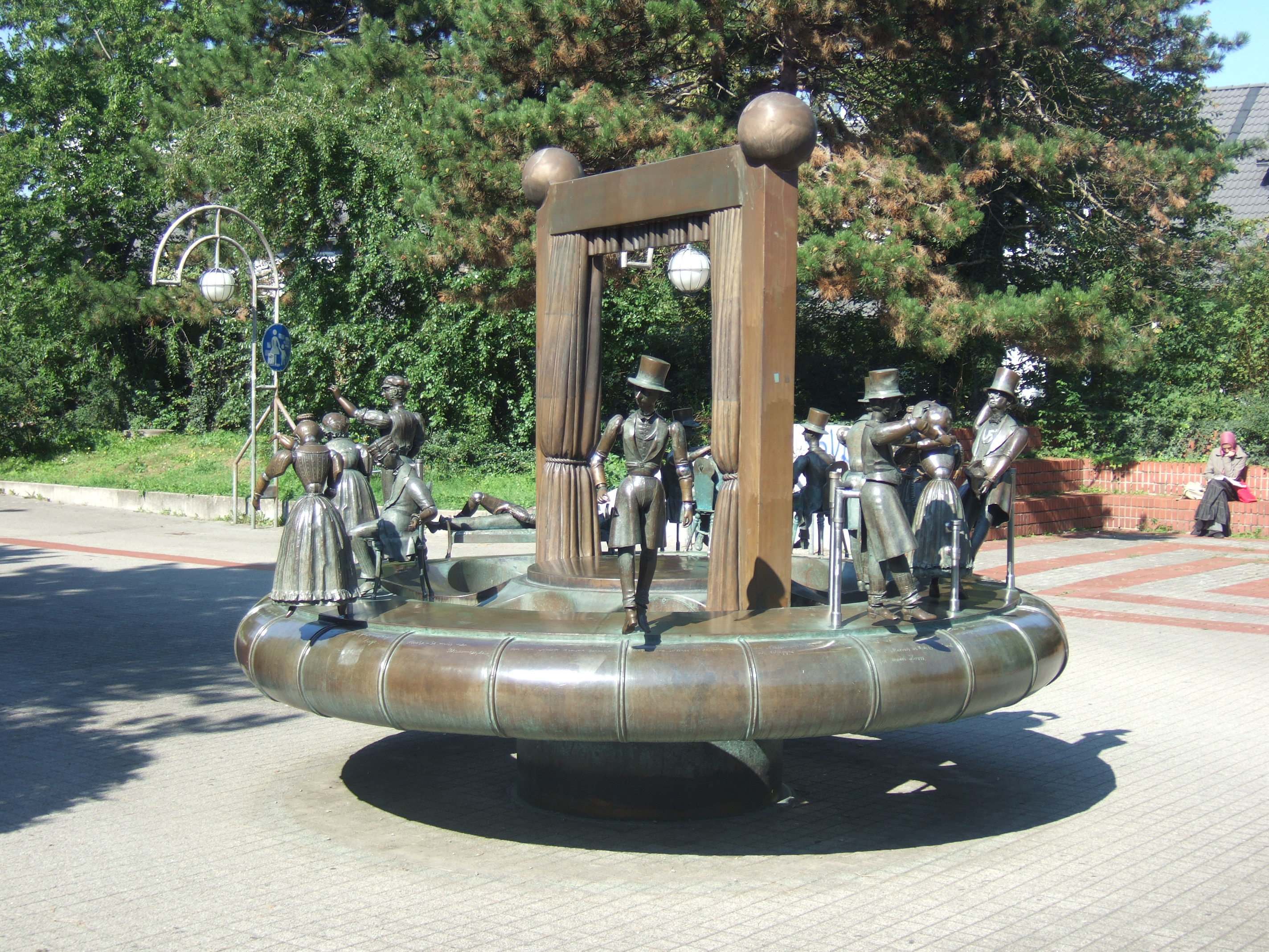 Datterich-Fountain in Darmstadt (Germany)